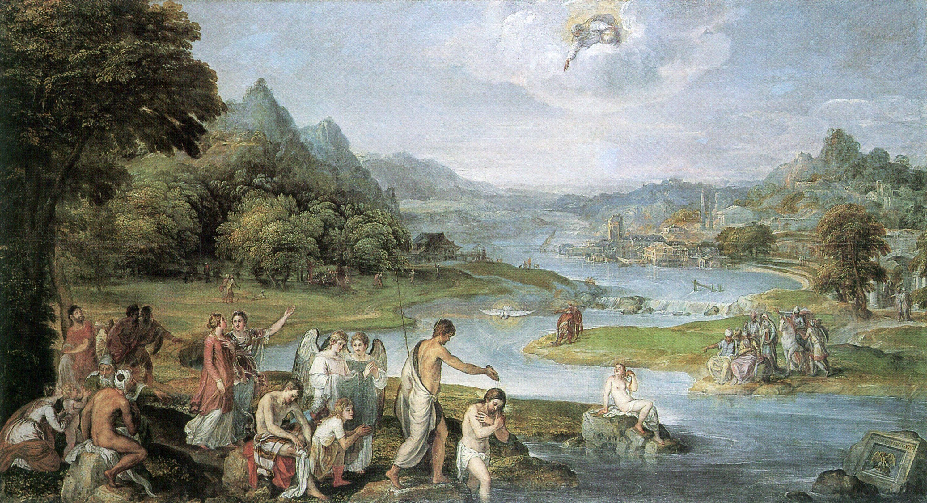 Baptism of Christ